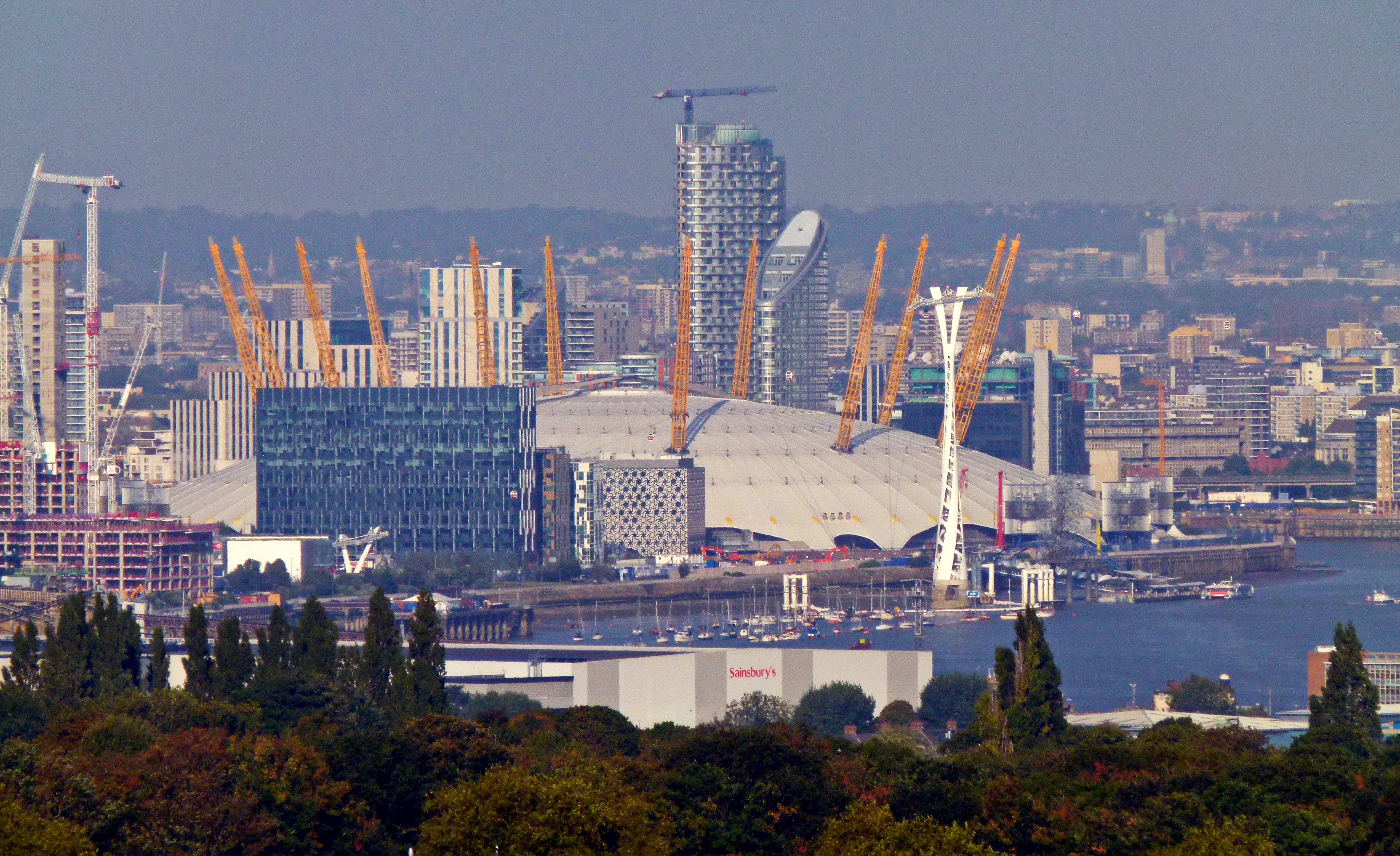 View from Shooter's Hill, South East London, of Woolwich Common (in the foreground), the river Thames, construction sites on the Greenwich Peninsula, the O2 Arena and parts of East London.